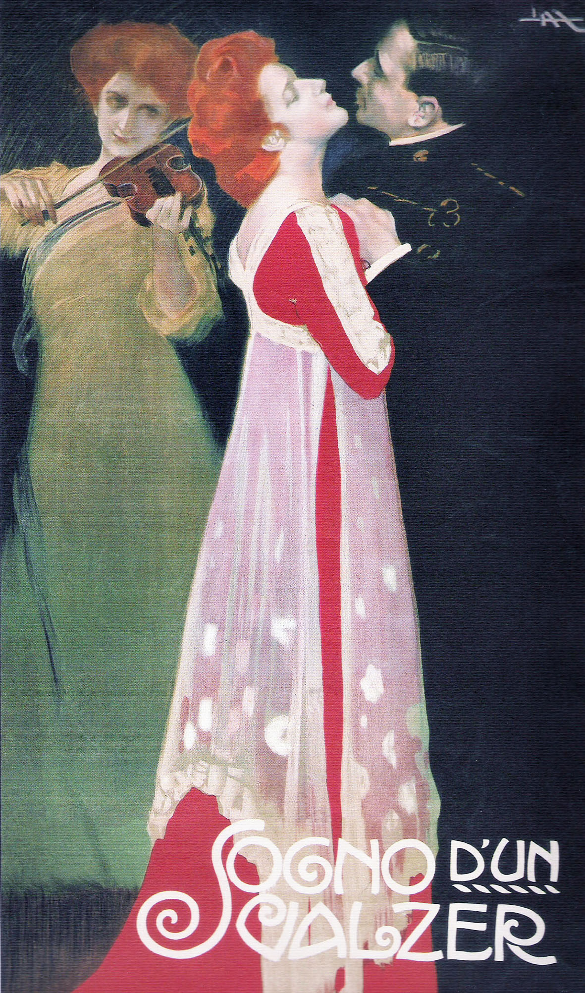 Poster by Leopoldo Metlicovitz.